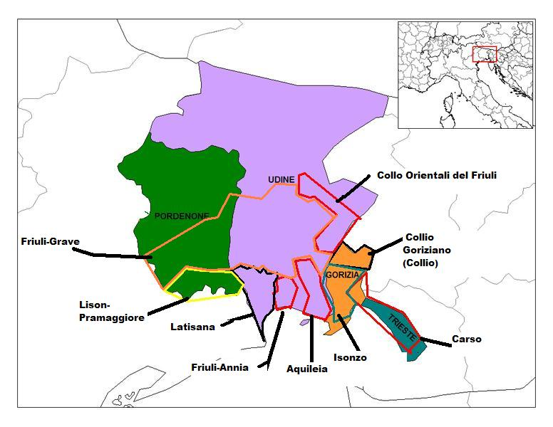 Image of approx locations of the wine regions of the Friuli-Venezia Giulia. Modified version of the Commons image Image:Friuli-Venezia Giulia Provinces.png released into the public domain by user:Rarelibra.